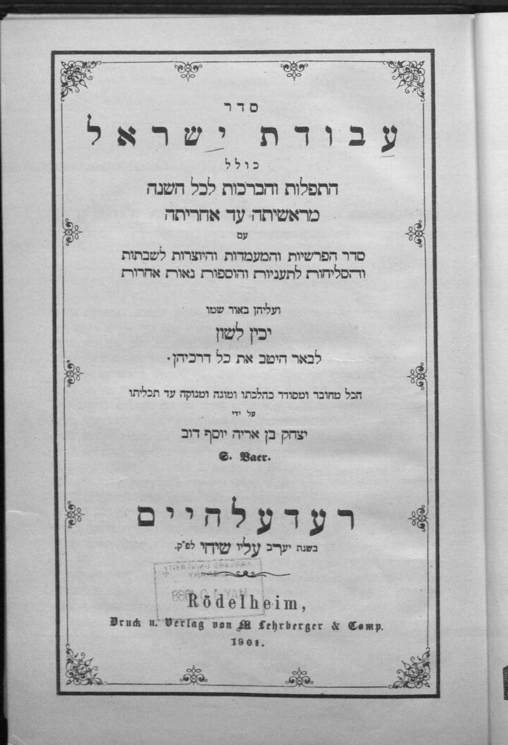 Title page of Seligman Baer's The "Seder Avodat Yisroel". 1901 publication.